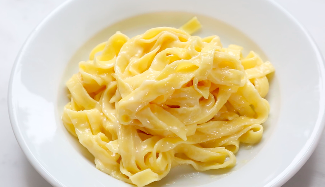 Fettuccine Alfredo made with Fettuccine egg noodles, butter and Parmigiano-Reggiano